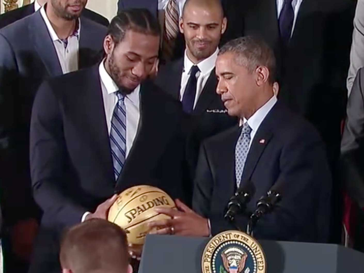 Kawhi Leonard of the San Antonio Spurs presents an autographed basketball to President Barack Obama at the ceremony honoring the 2014 NBA Champions in the East Room of the White House, January 12, 2015